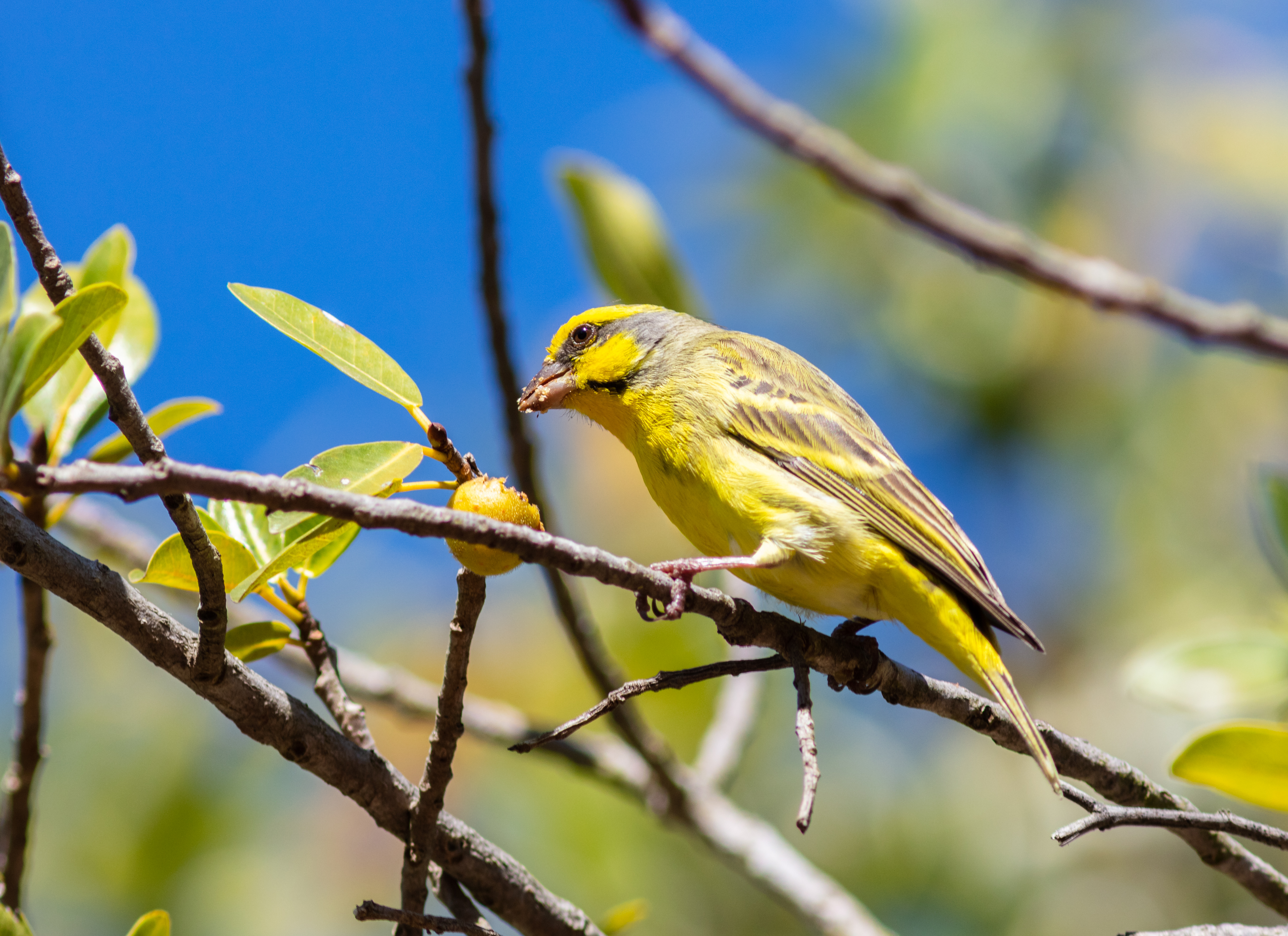 Village weaver (Ploceus cucullatus), Kruger National Park, South Africa